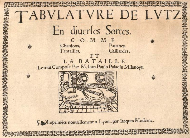 Title page of GP Paladin's lute tablature (Lyon, 1560)